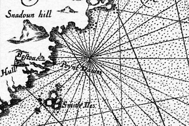 "Snadoun Hill" (now Mount Agamenticus); detail from "A Description of New England," 1616, published by Captain John Smith. Showing place names suggested by Prince Charles to replace "barbarous" aboriginal names, the Agamenticus River (now York River) region appears as "Boston," and the Piscataqua River region as "Hull." "Smith's Isles" are today the Isles of Shoals.